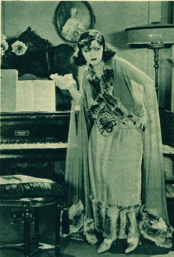 Pola Negri, in "Bella Donna", from a 1923 publication.